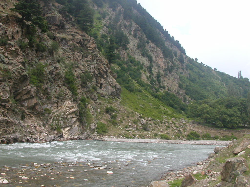 River Kunhar passing the village of Naran, Kaghan Valley, Khyber Pakhtunkhwa-NWFP, Pakistan